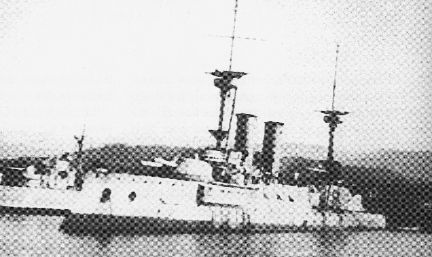 The battleship Torgud Reis in the 1930s.